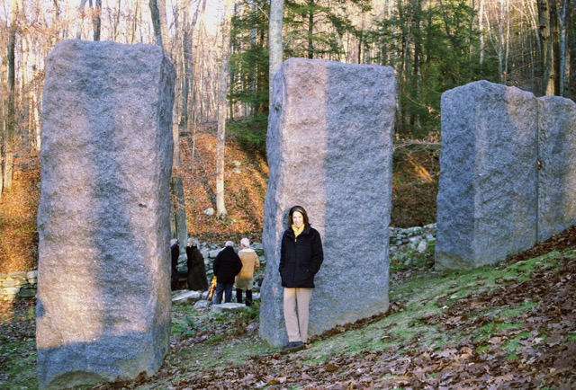 Elyn at Archeos Site